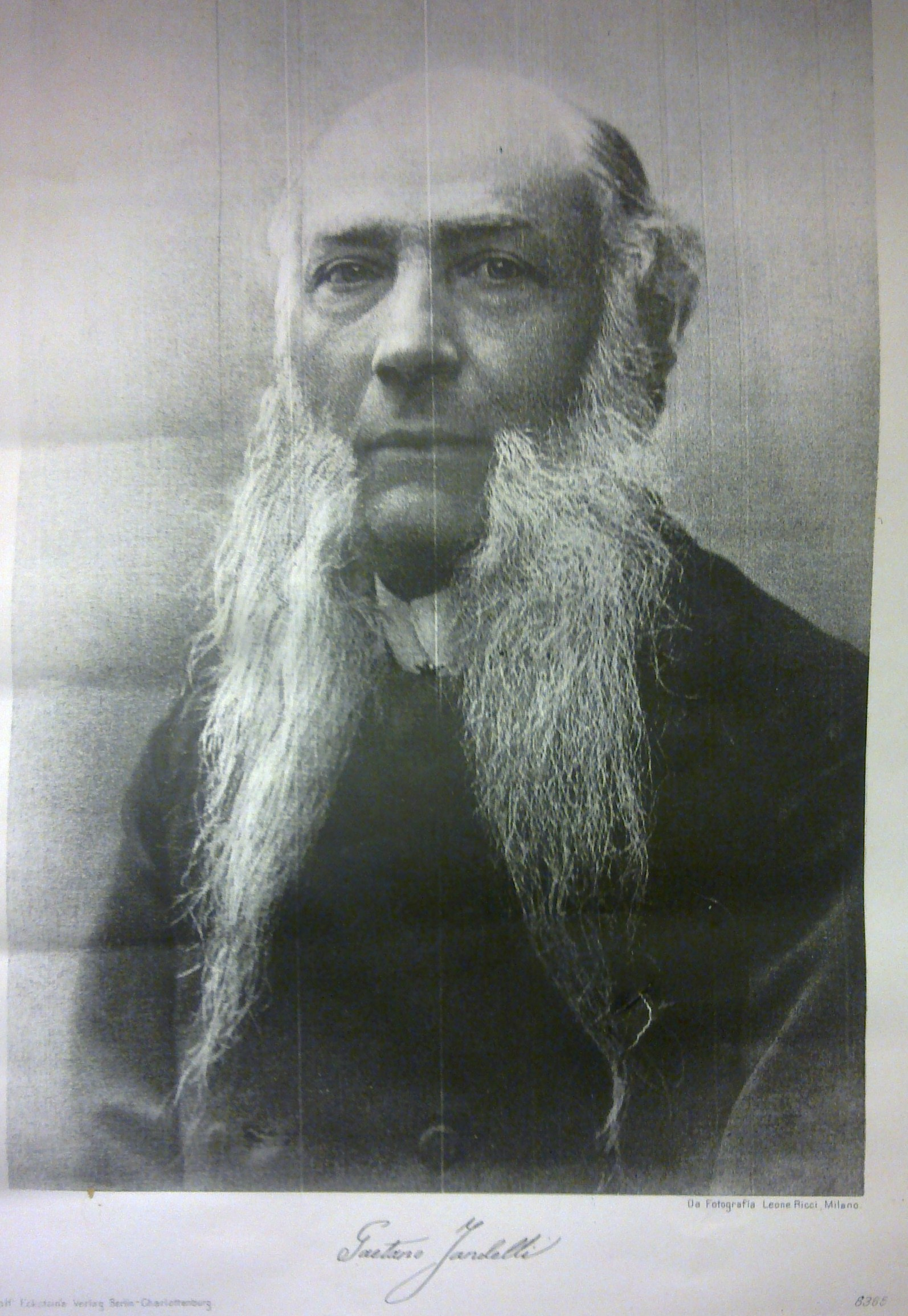 Gaetano Jandelli